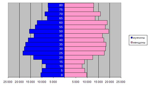 Mariupol population pyramid 2014